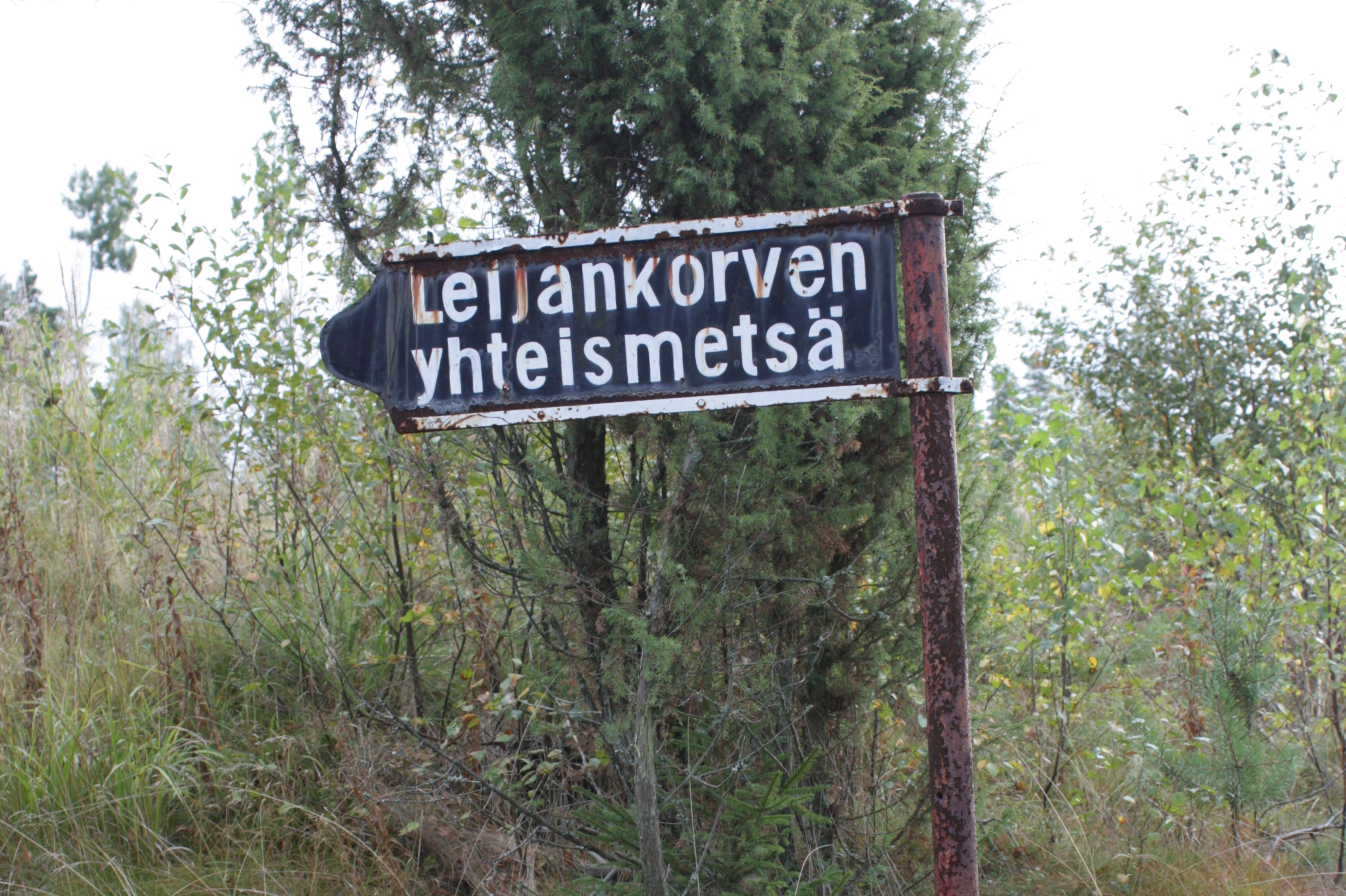 Road sign for Leijankorven yhteismetsä (Leijankorpi jointly-owned-forest) in Rusko, Finland. The Leijankorpi forest was one of the large landowners of the present Kurjenrahka National Park.